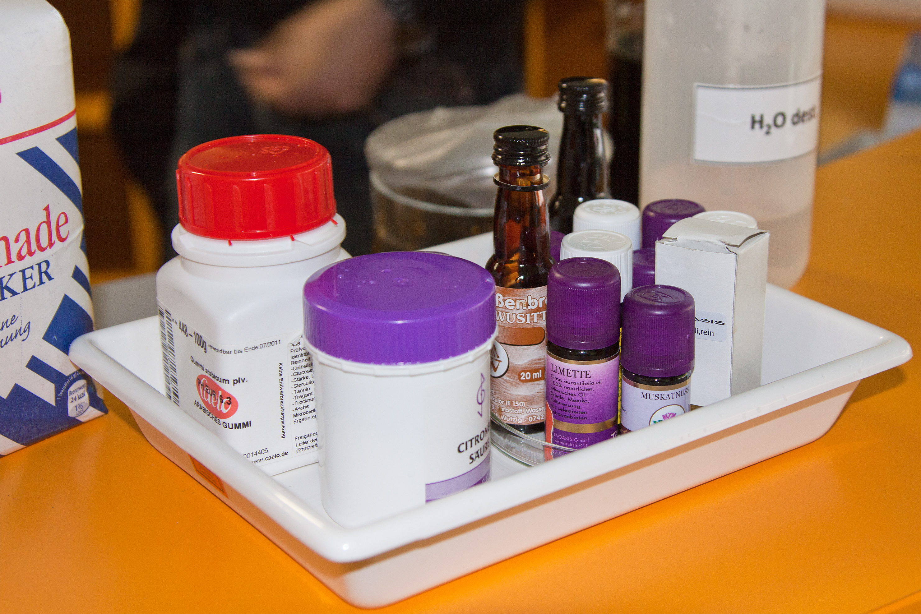 Preparing OpenCola to promote Open Access